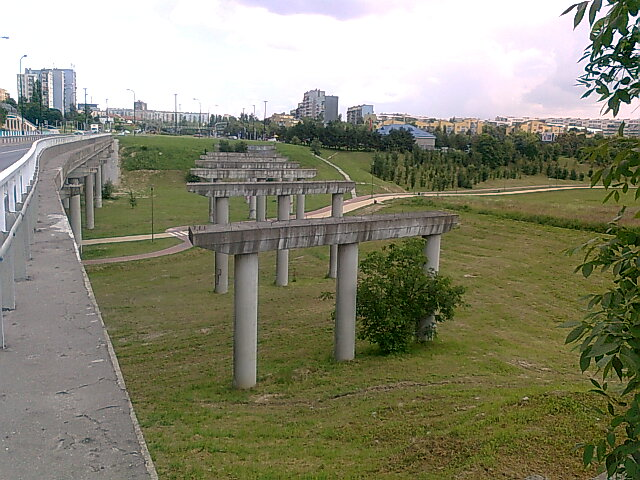 Filaretów Street in Lublin, Czuby District, Poland, July 2013